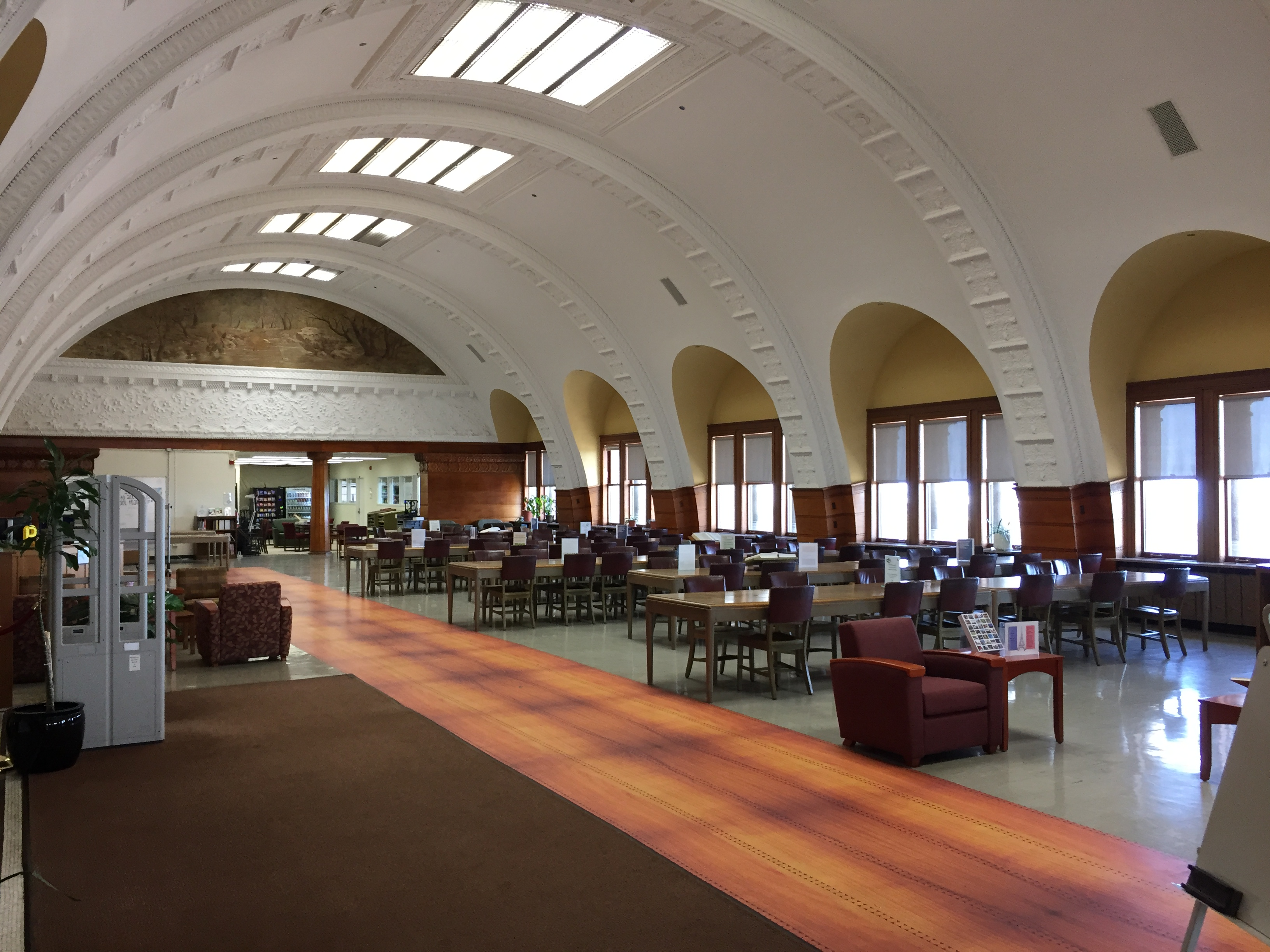 Roosevelt University's Murray-Green Library on September 10, 2017 in Chicago, IL